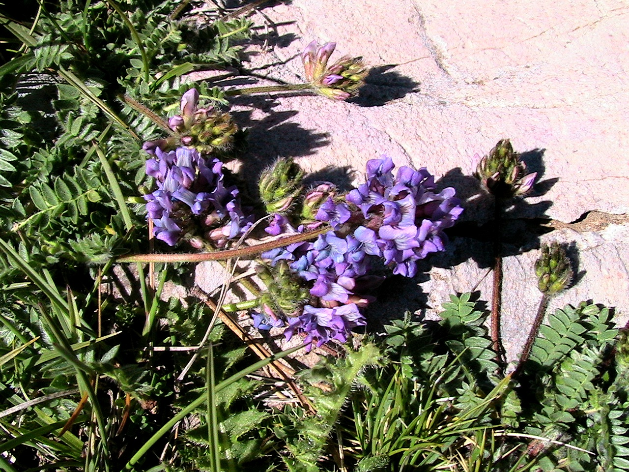 Oxytropis neglecta. In la Bòfia, la Coma i la Pedra (Solsonès - Catalunya). To 2.090 m. altitude